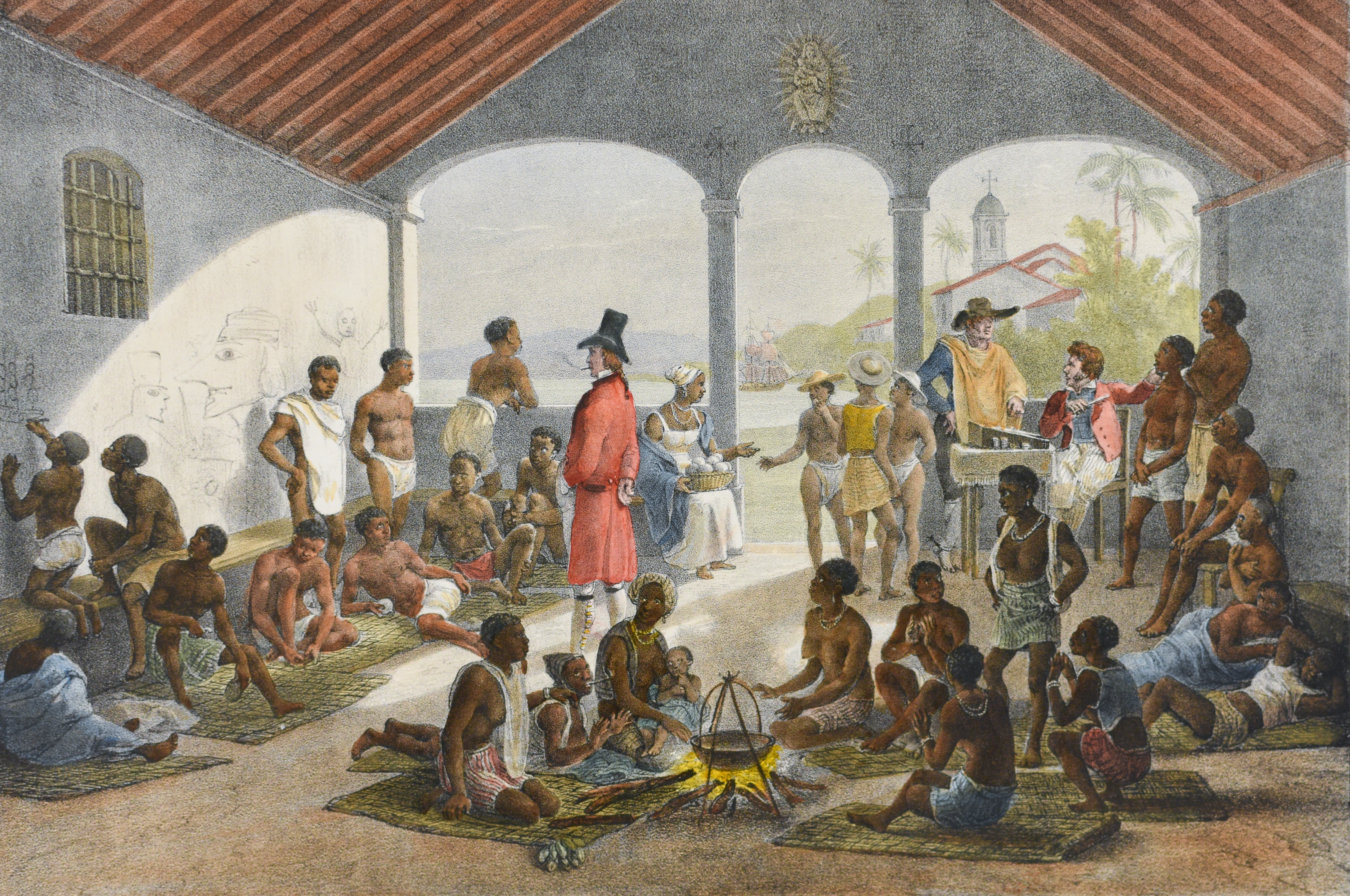 Slavery in Brazil, by Jean-Baptiste Debret